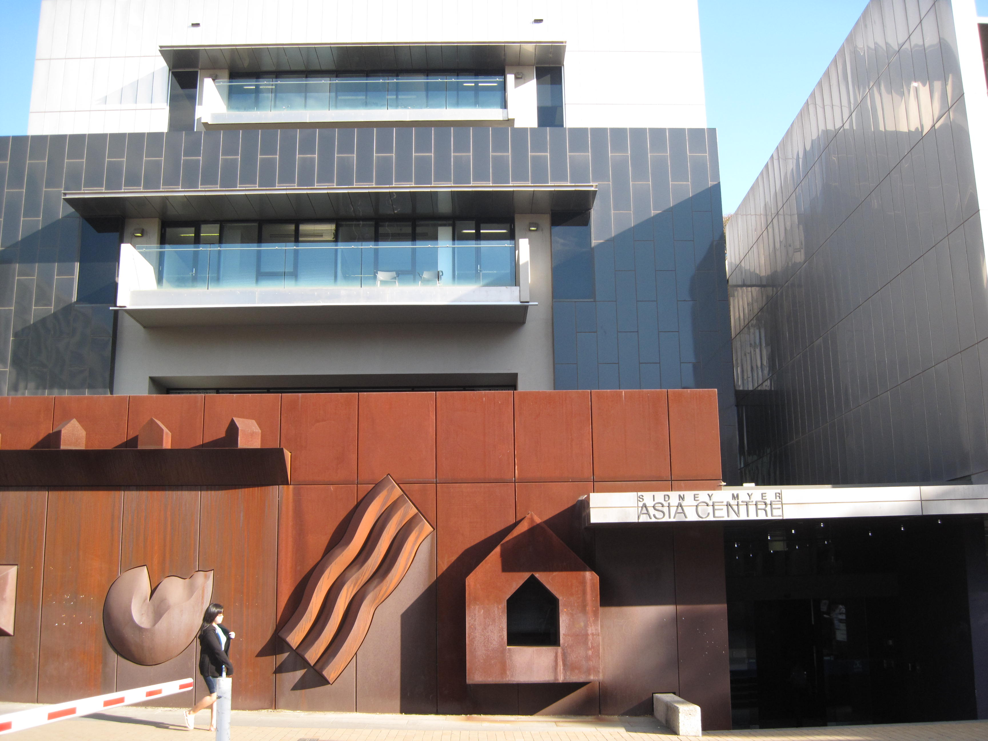 photo of spirit wall in asia centre